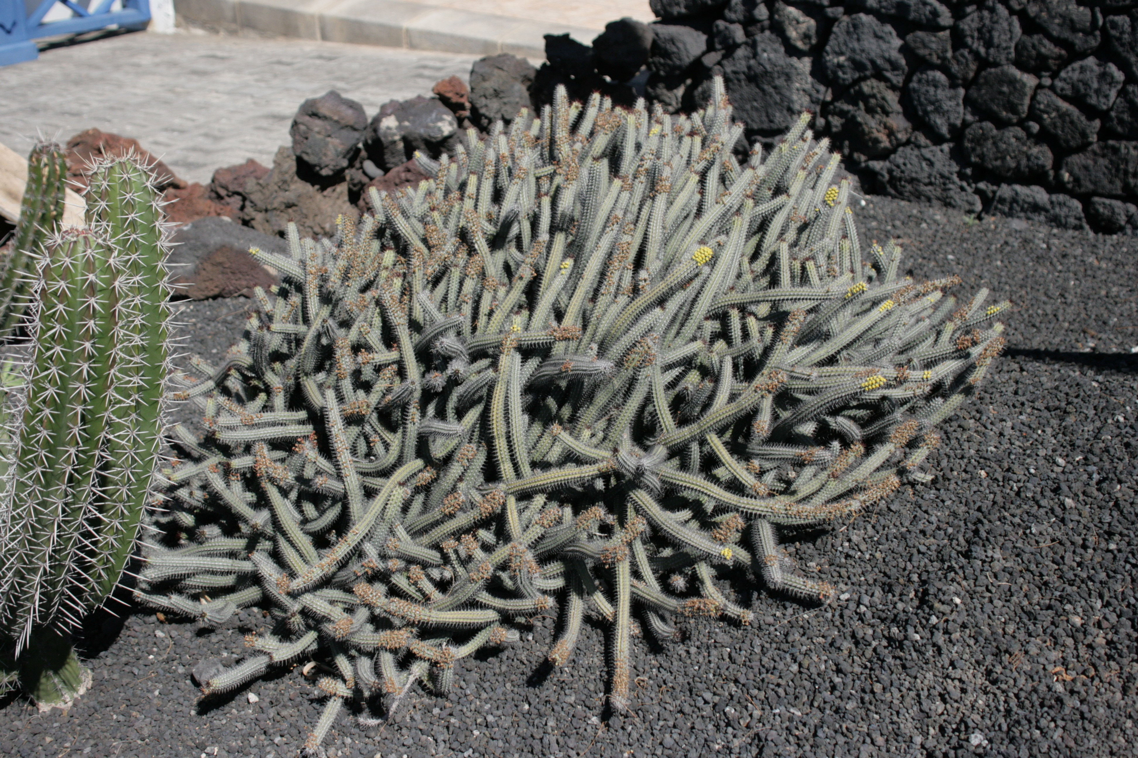 Euphorbia baioensis grown at Avenida Maritima, El Golfo in Yaiza, Lanzarote, Canary Islands